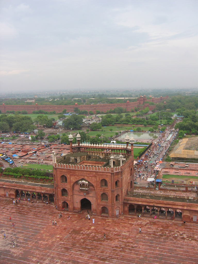 Main entrance, and the approach road, from the minaret, Jama Masjid, Dellhi.